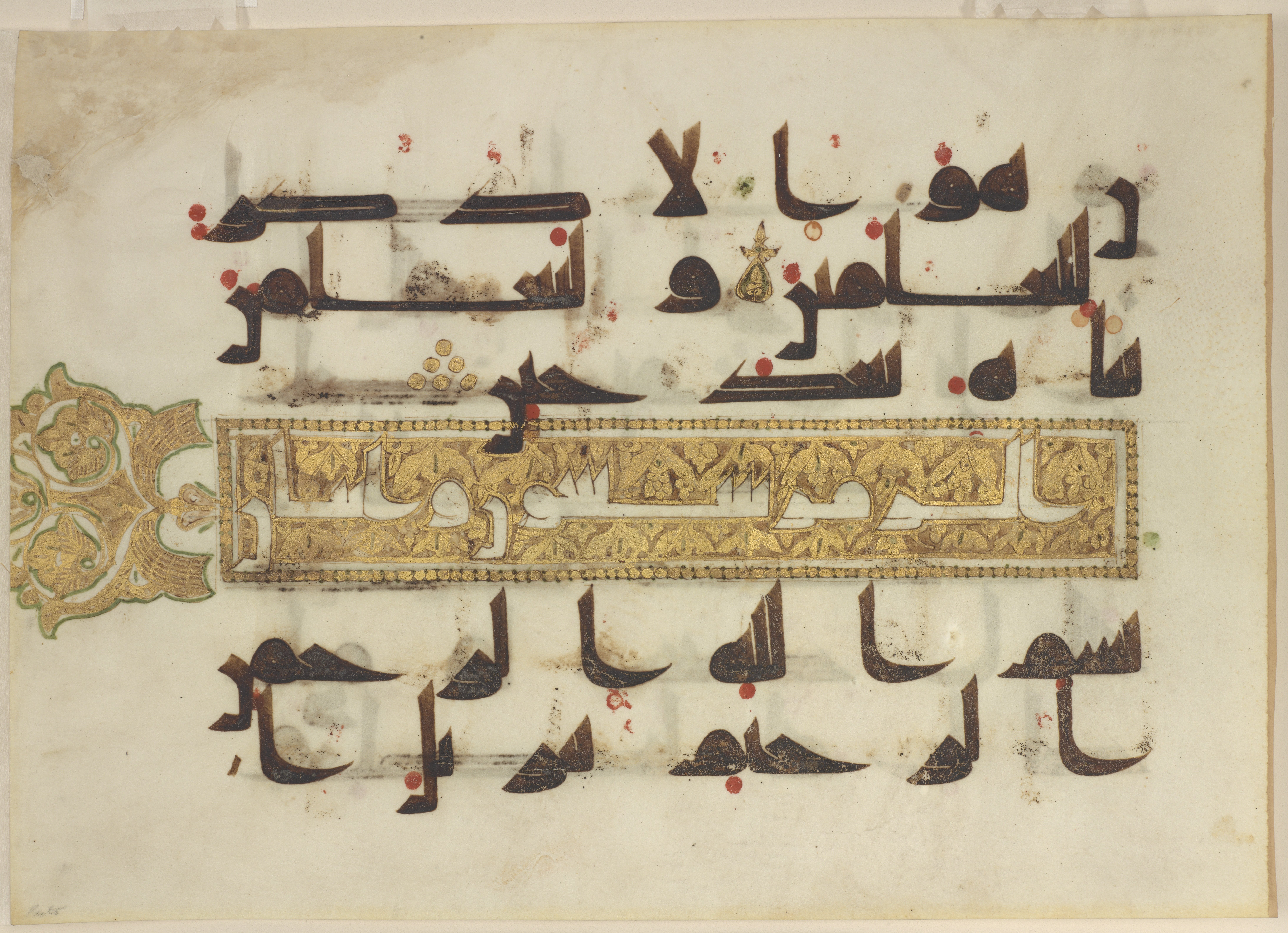 Folio from a Koran: Sura 38, verses 87-88; sura 39, verse 1 Abbasid dynasty Ink, color and gold on parchment H: 23.9 W: 33.6 cm Near East or North Africa